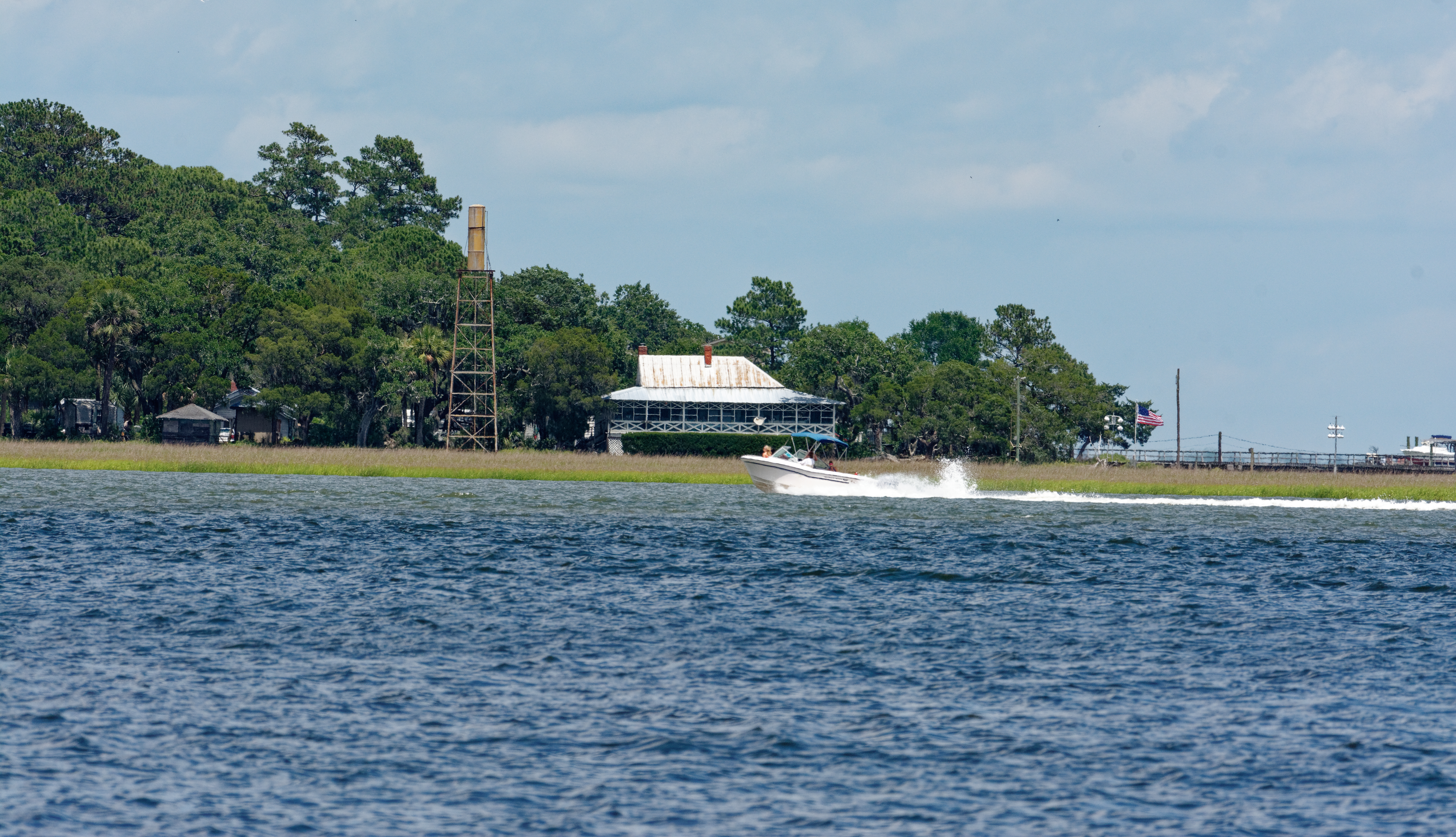 Wilmington river with Wilmington Island in the background, seen from Skidaway Island. The building is Eureka Club-Farr's Point, which is on the National Registry of Historic Places.